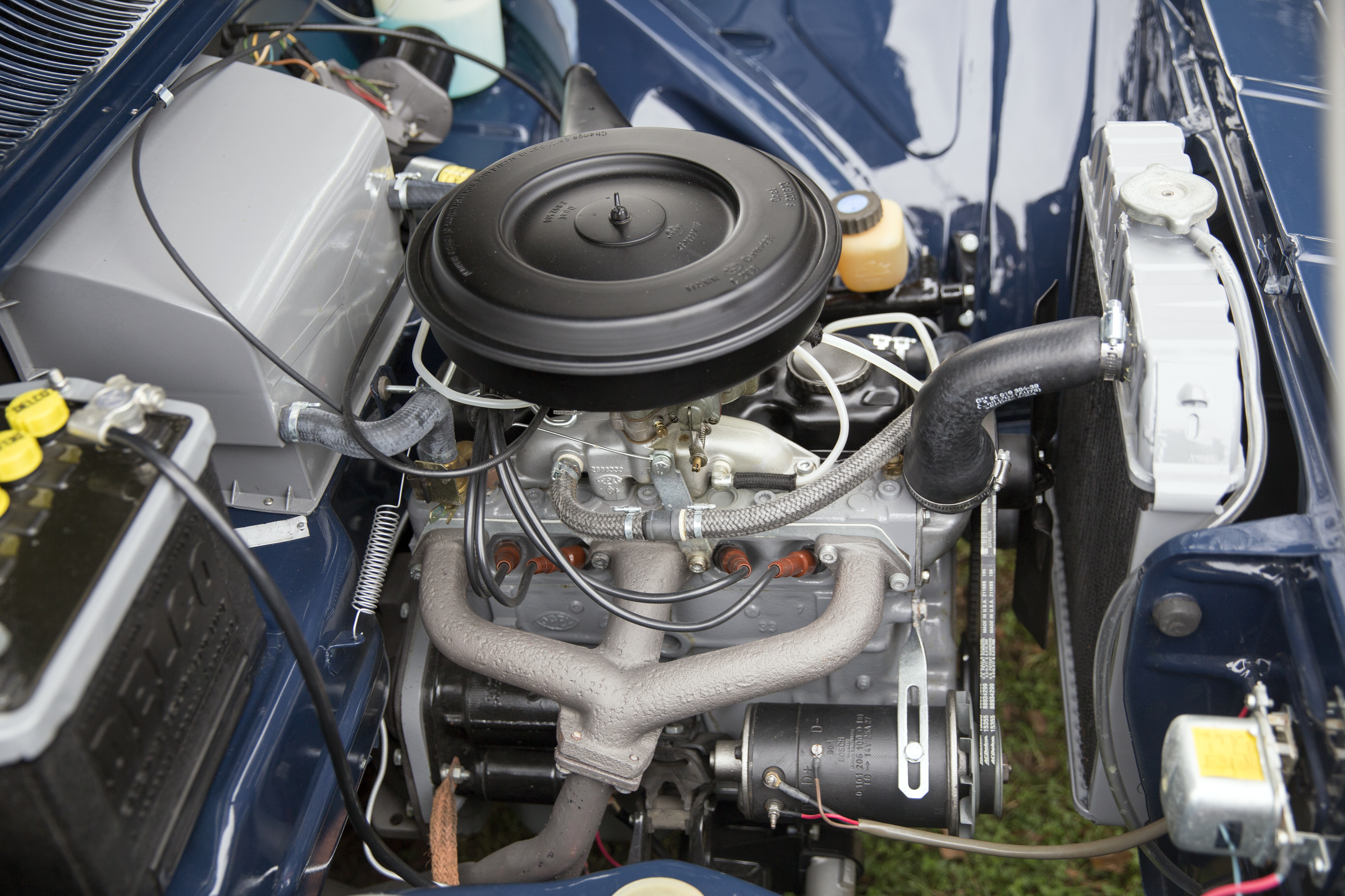 The 11S engine of a 1967 Opel Kadett L Coupé in the show area at Hershey 2019. Original US-market car.